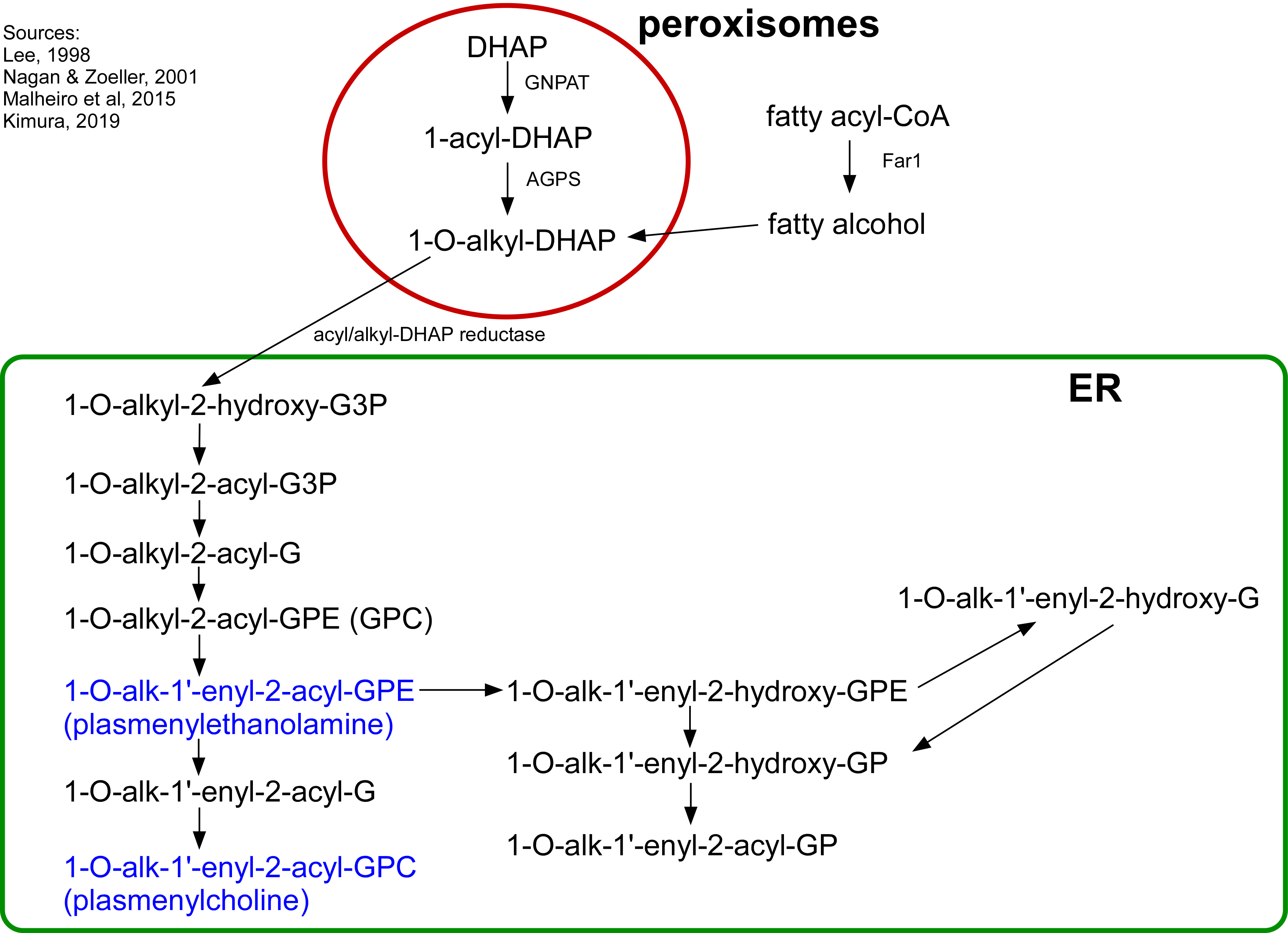 Plasmalogen synthesis, biochemical pathway in ER and peroxisomes